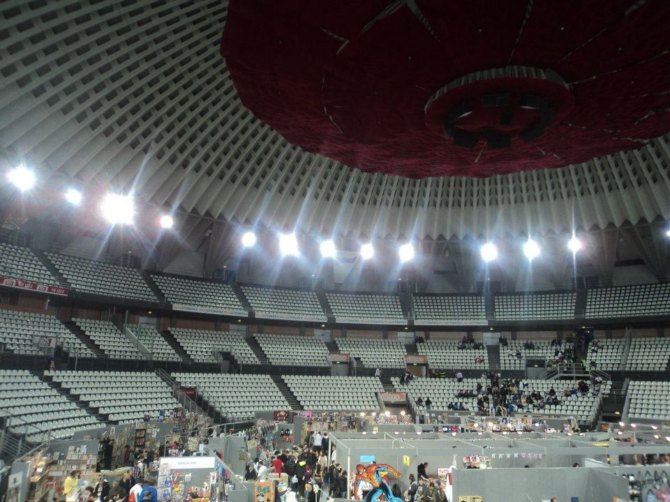 Roma Comics & Games 2012